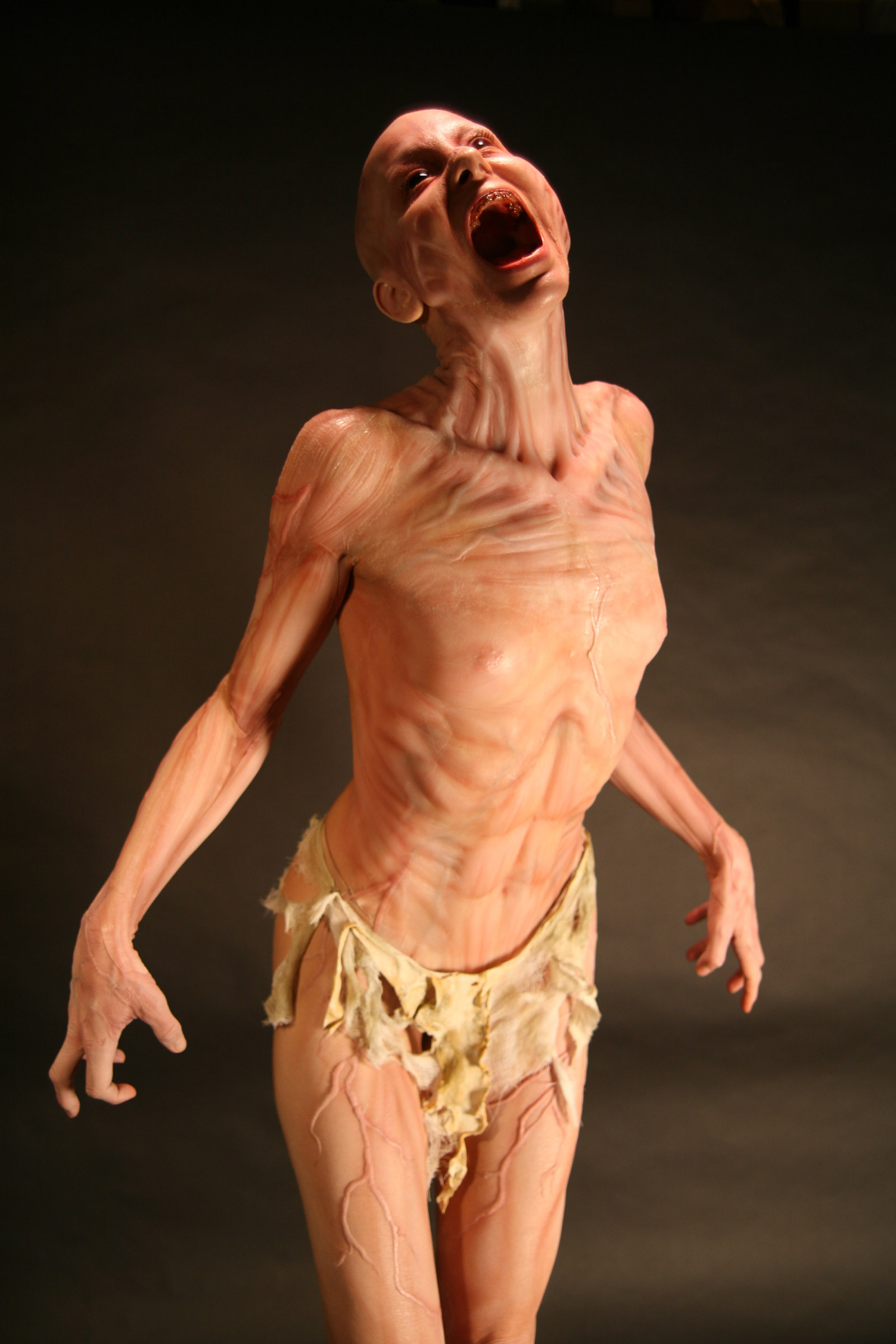 Full body, silicone appliance, Hemocyte test makeup with dentures and contact lenses